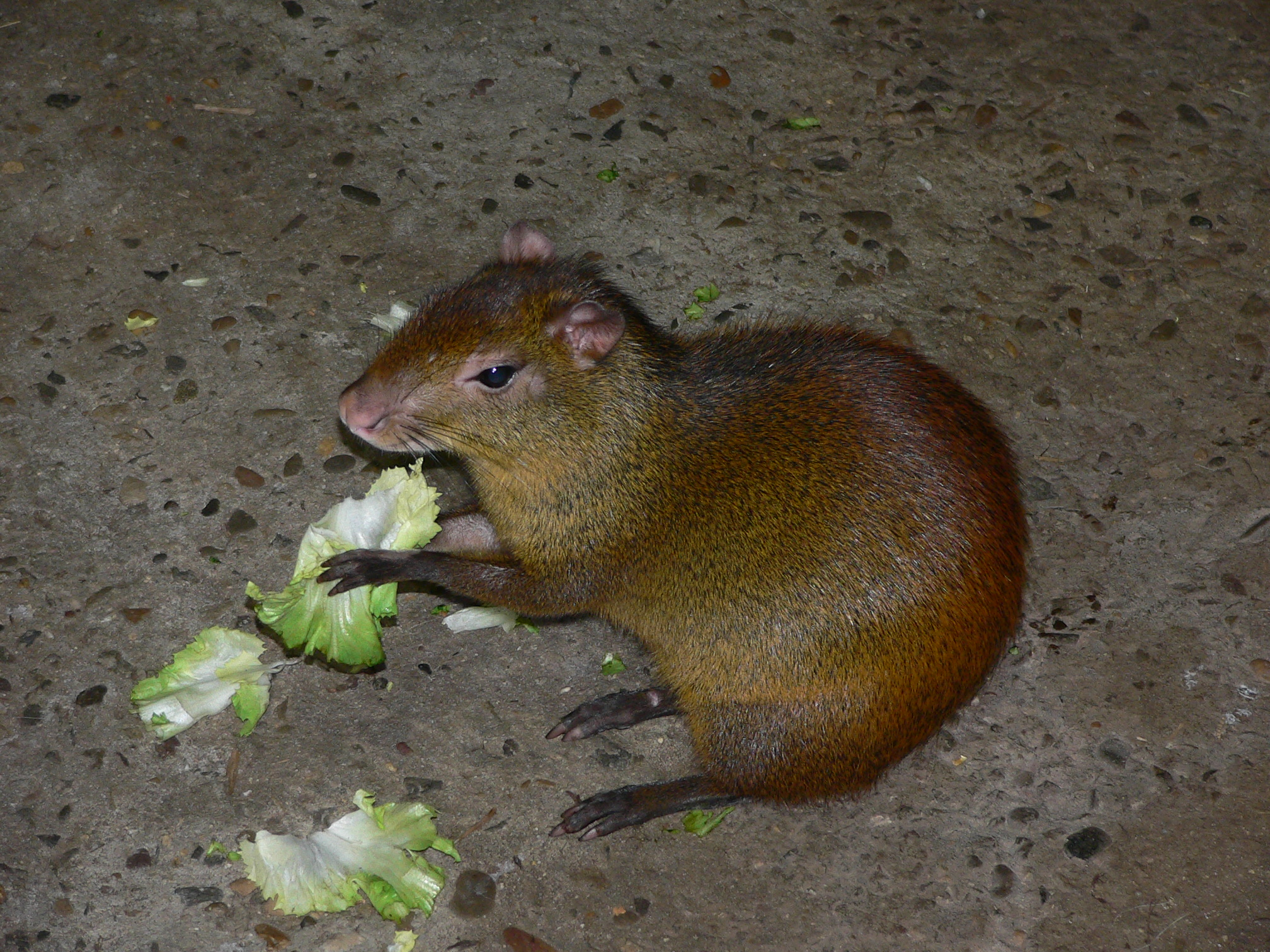 Brazilian Agouti at Philadelphia Zoo.